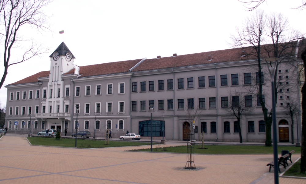 Town hall in Šiauliai, Lithuania